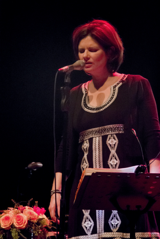 Cowboy Junkies performing at Keswick Theatre, March 9, 2012